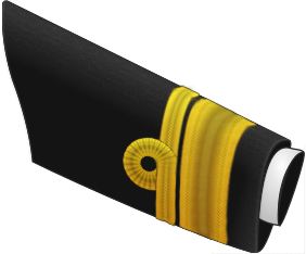 Updated Canada's Rear Admiral